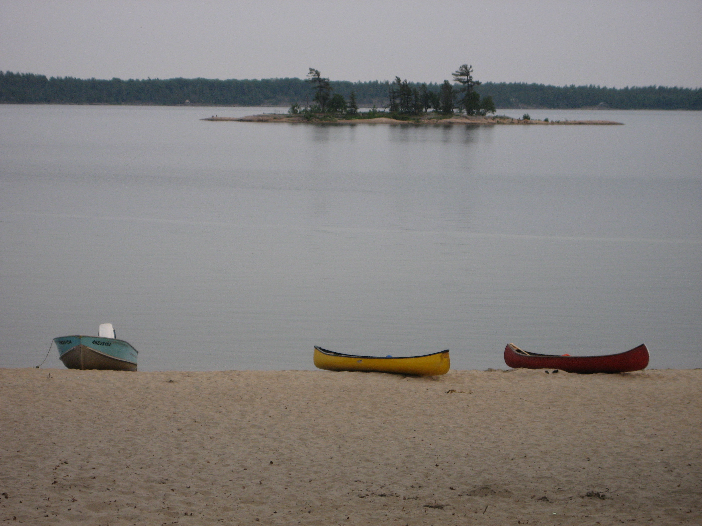 Canoes on the beach at Killbear Provincial Park